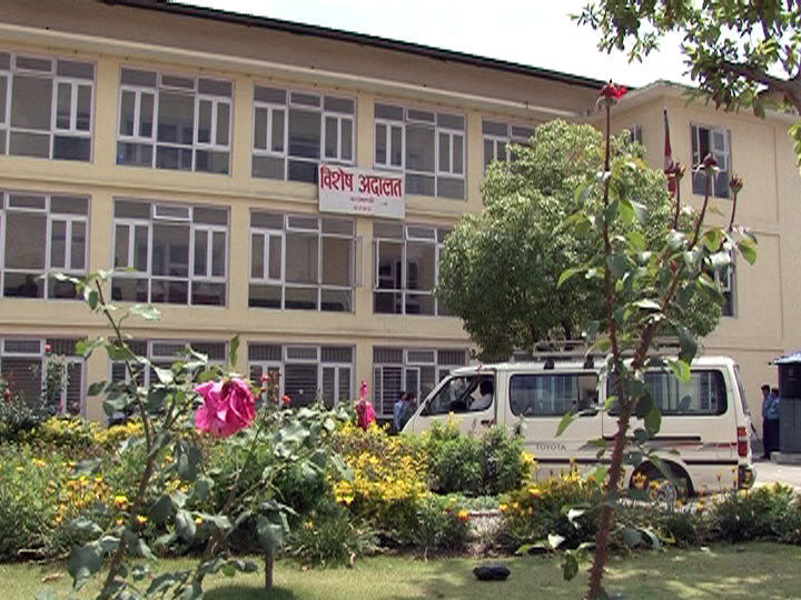 Special Court of Nepal